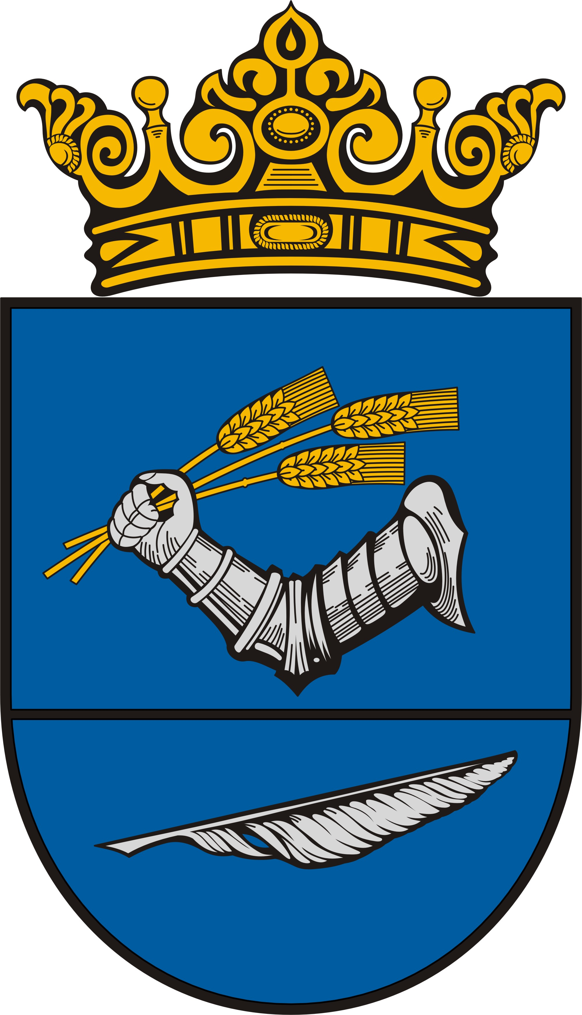 Coat of arms of Duka, Hungary